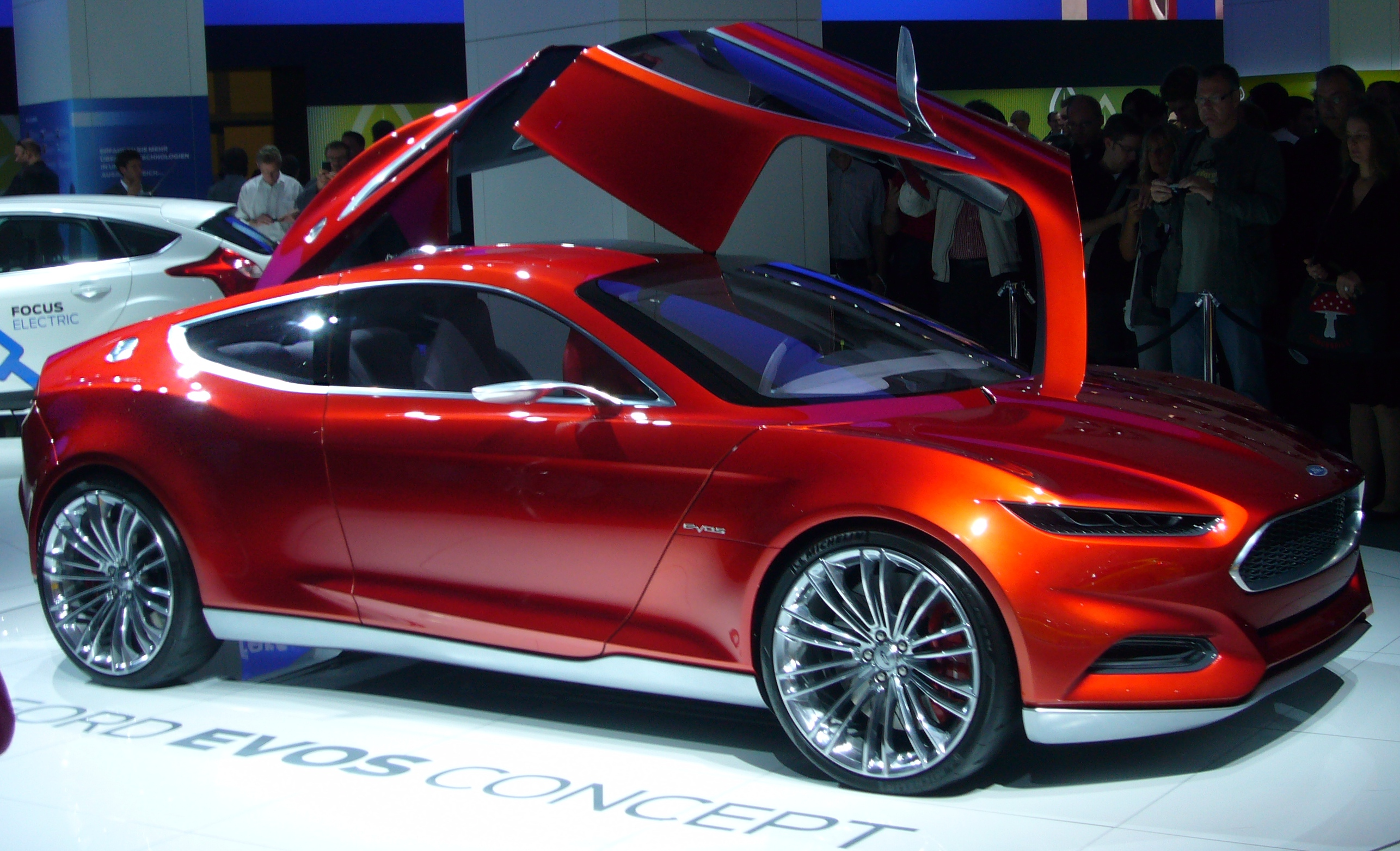 Ford Evos Concept at IAA Frankfurt 2011.